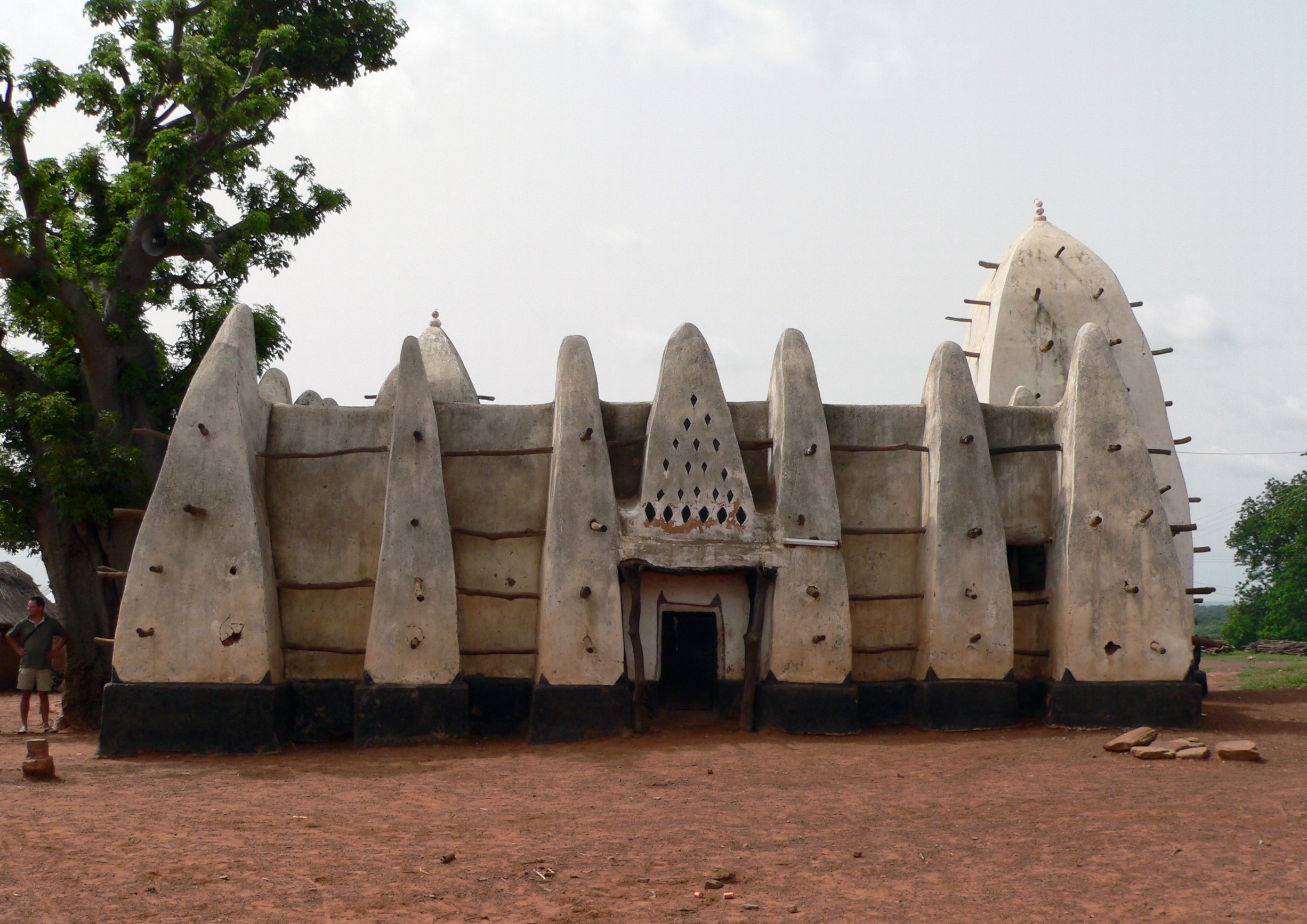 The back of the Larabanga mosque.